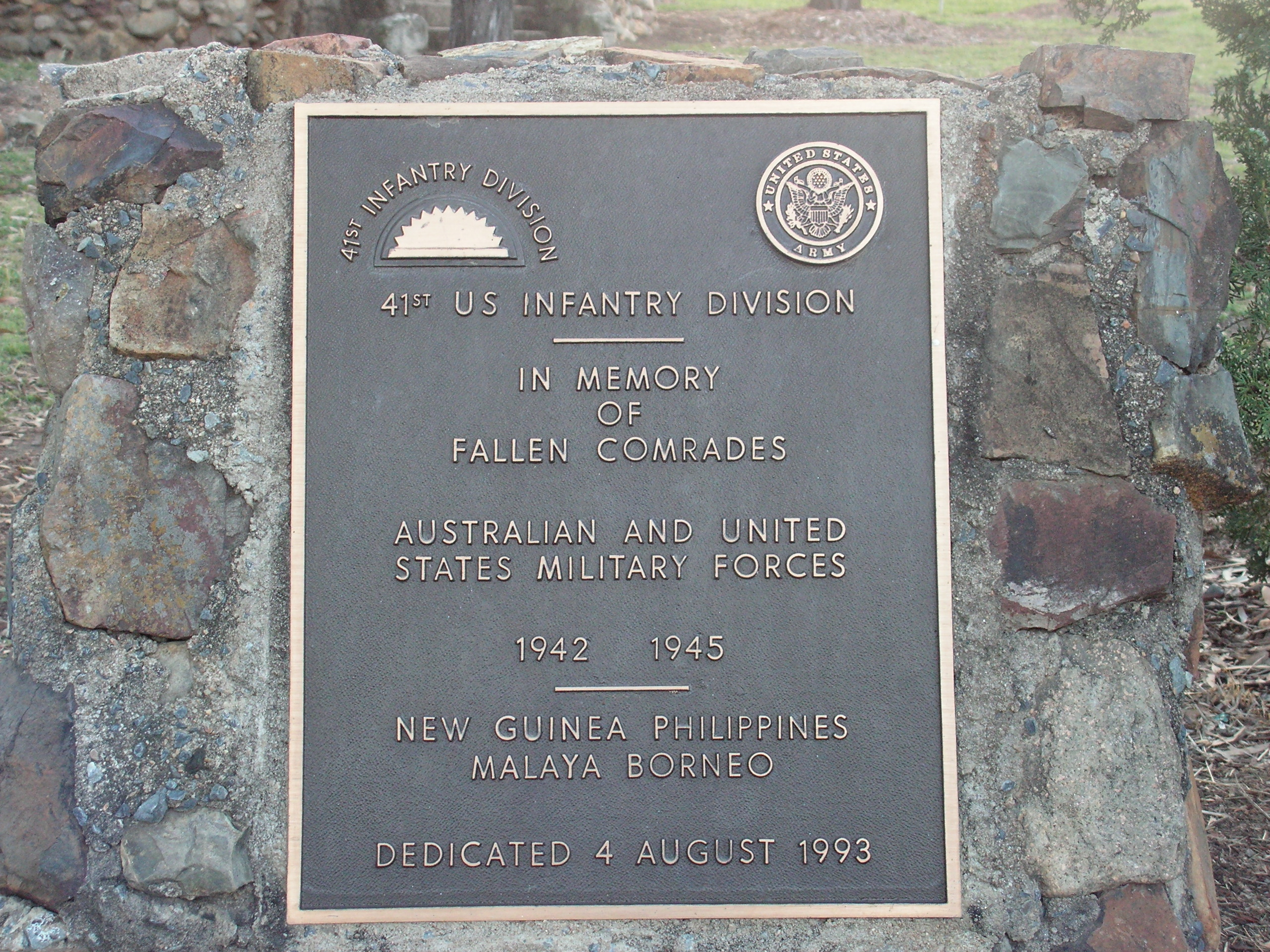 41st United States Infantry Division memorial plaque, St Christophers Chapel, near Rockhampton, Queensland, Australia